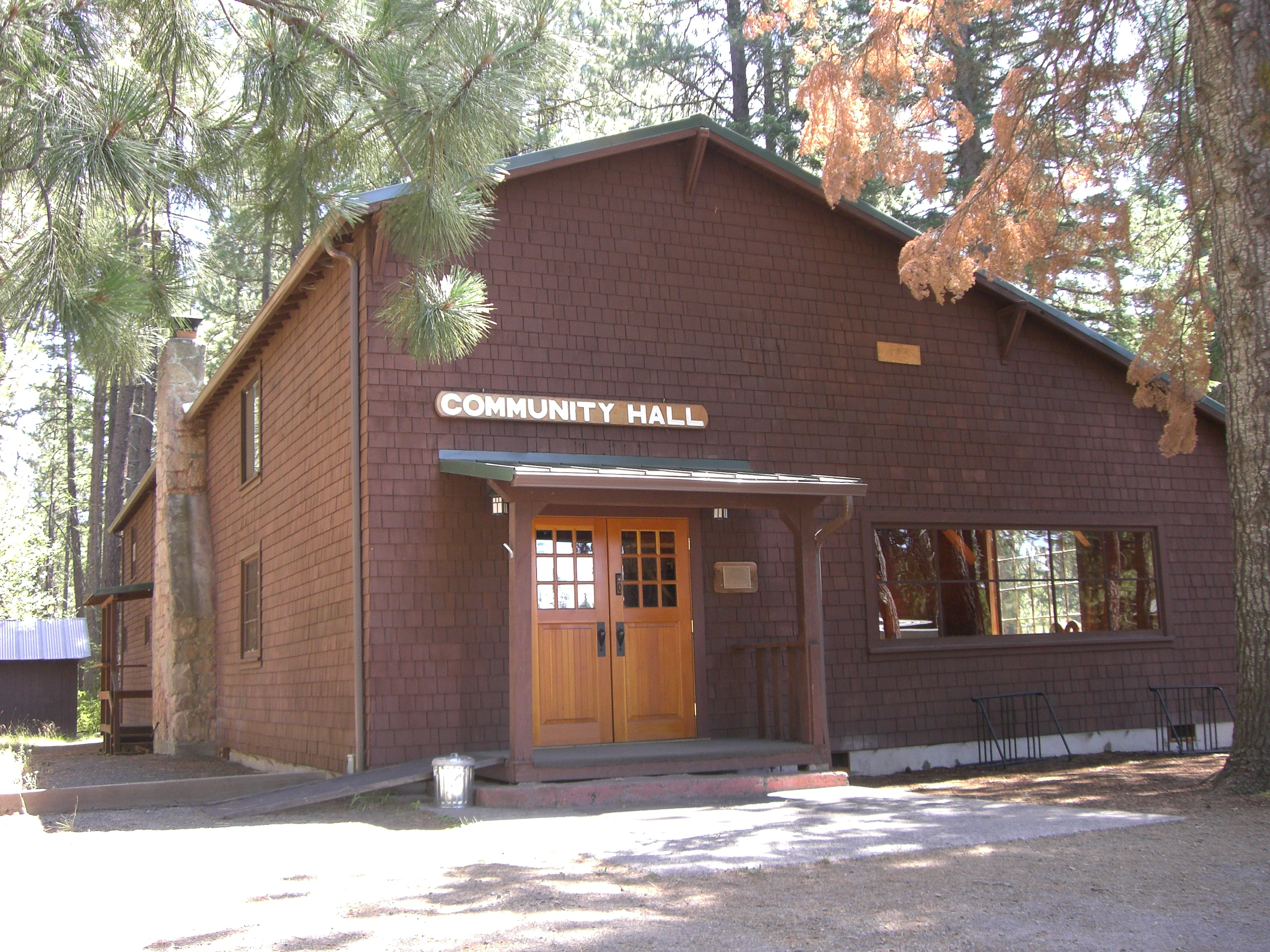 The Camp Sherman Community Hall (built 1949) in Camp Sherman, Oregon, United States, is listed on the US National Register of Historic Places (NRHP). NRHP reference number 03000070